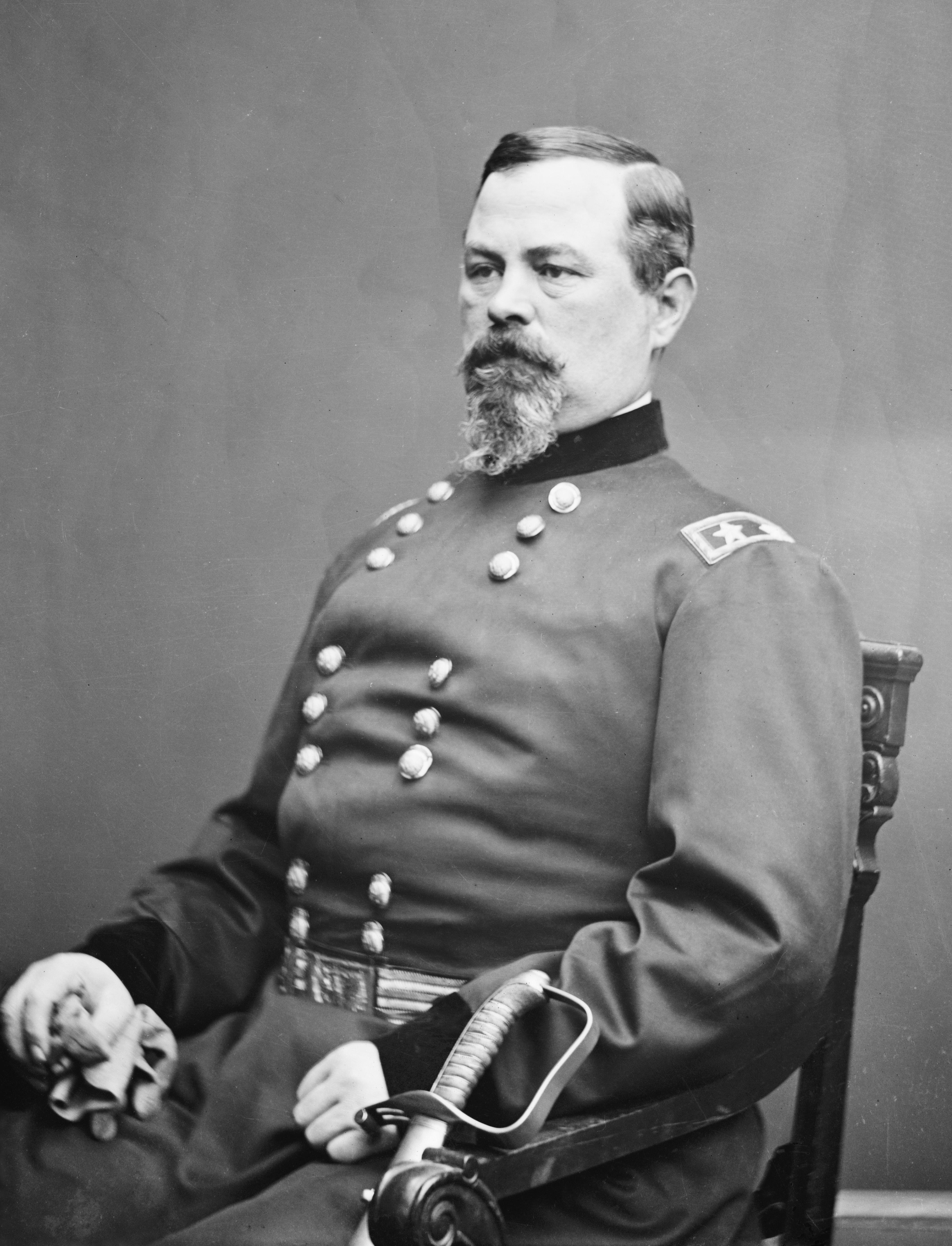 Portrait of Maj. Gen. Irvin McDowell, officer of the Federal Army.